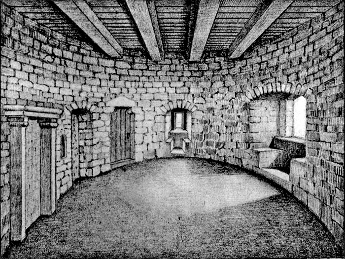 Maastricht, the Netherlands. Interior of the former Kruittoren (Gunpowder Tower) in Wyck. Drawing probably by Jan Brabant, ca 1865.